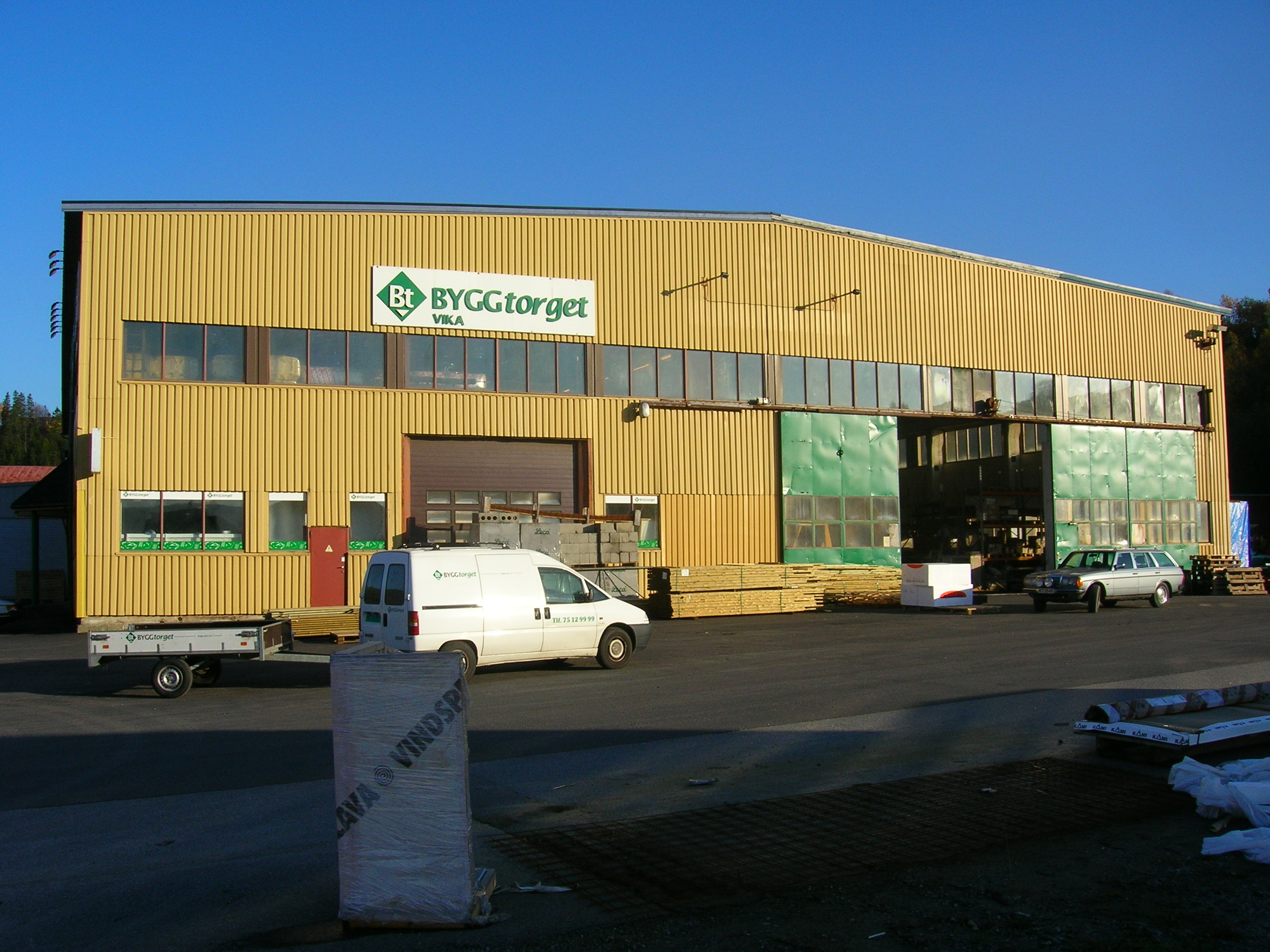 Byggtorget, Mo i Rana, Rana municipality, county of Nordland, Norway, Photo 5 October, 2007 with a Nikon Coolpix 5600 5,1 Megapixel camera.